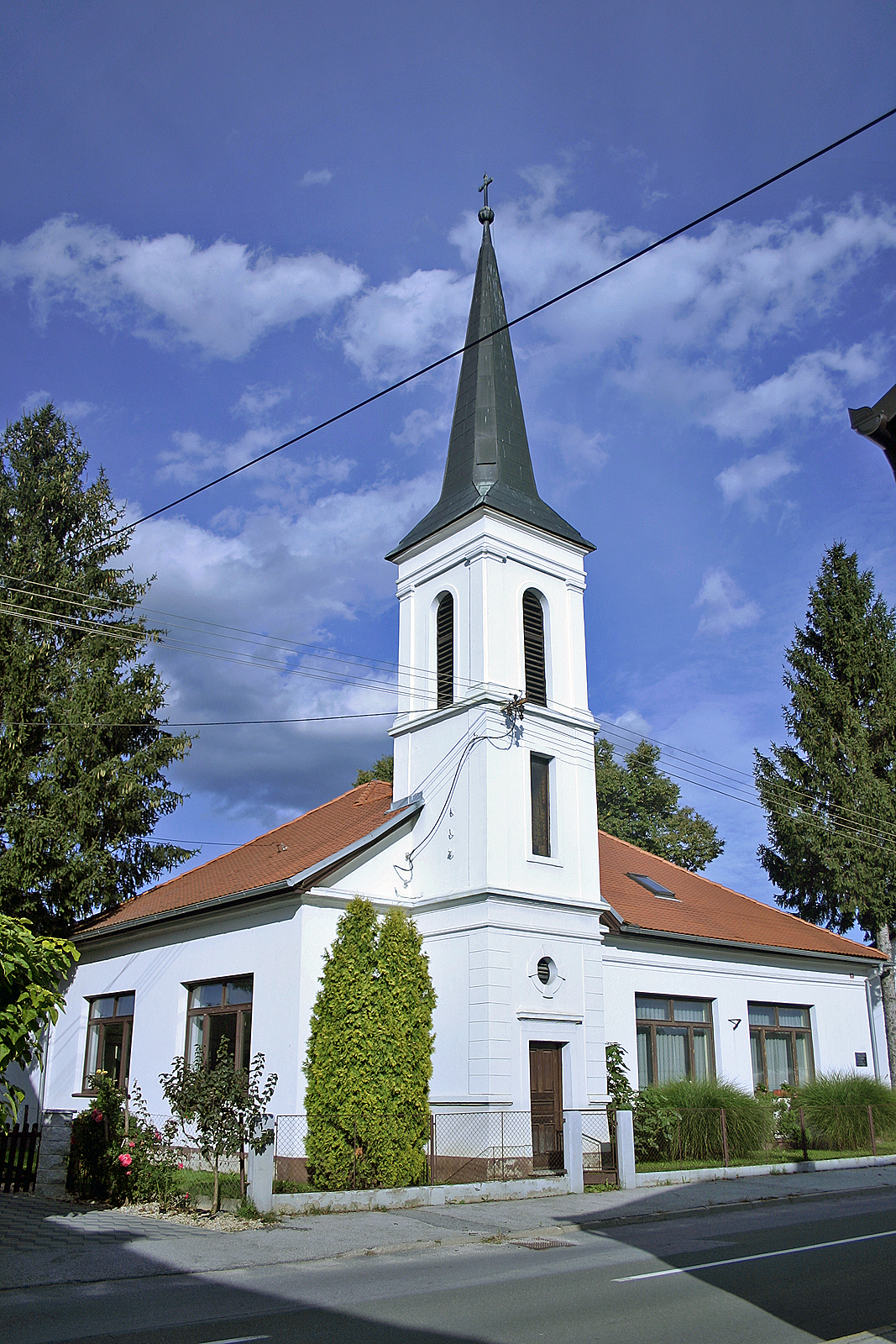 Chapel Slovenia